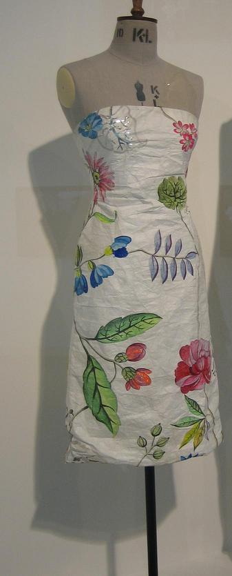 Paper Bustier Dress